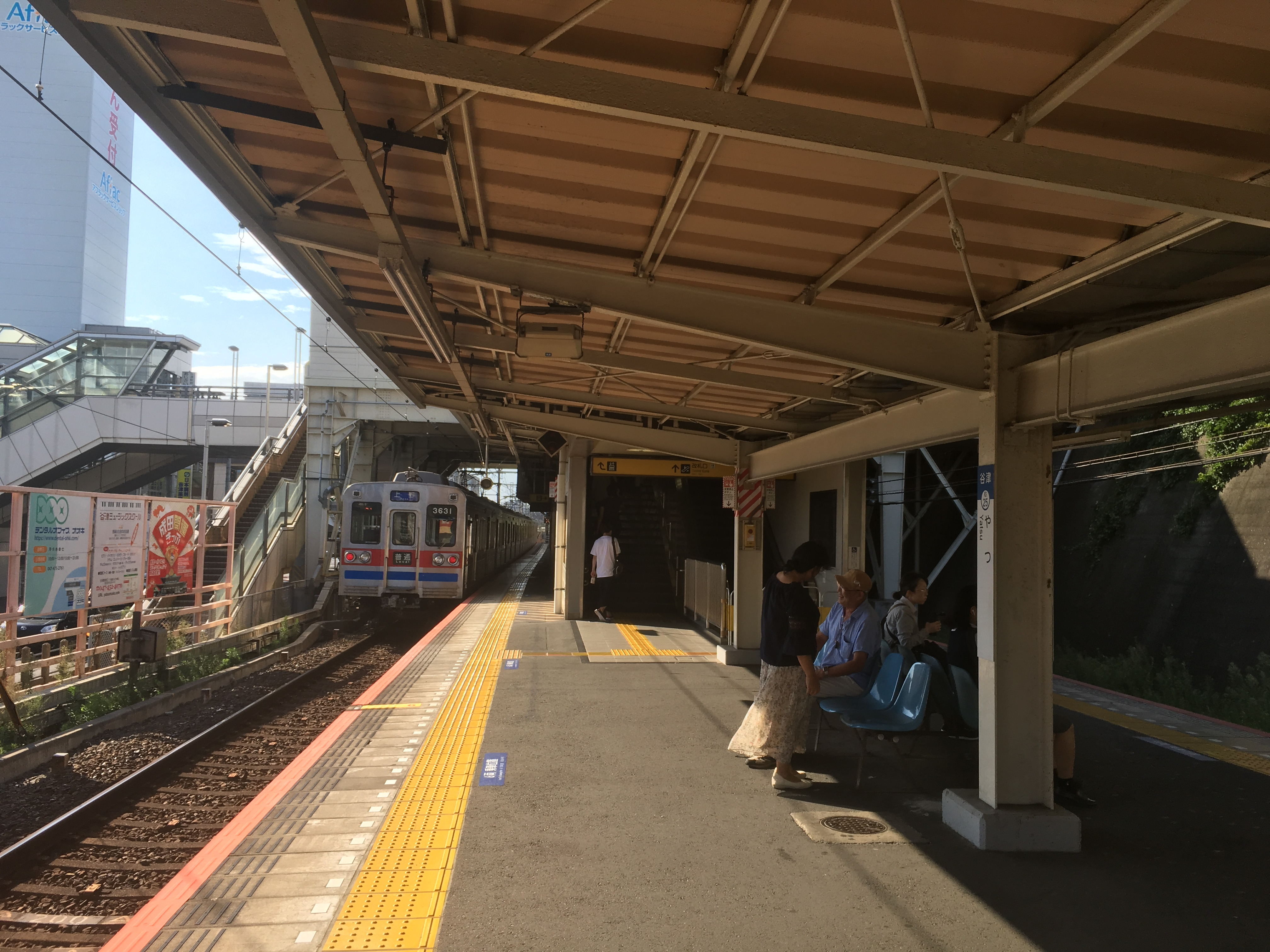 谷津駅のホーム (Yatsu Station platforms)